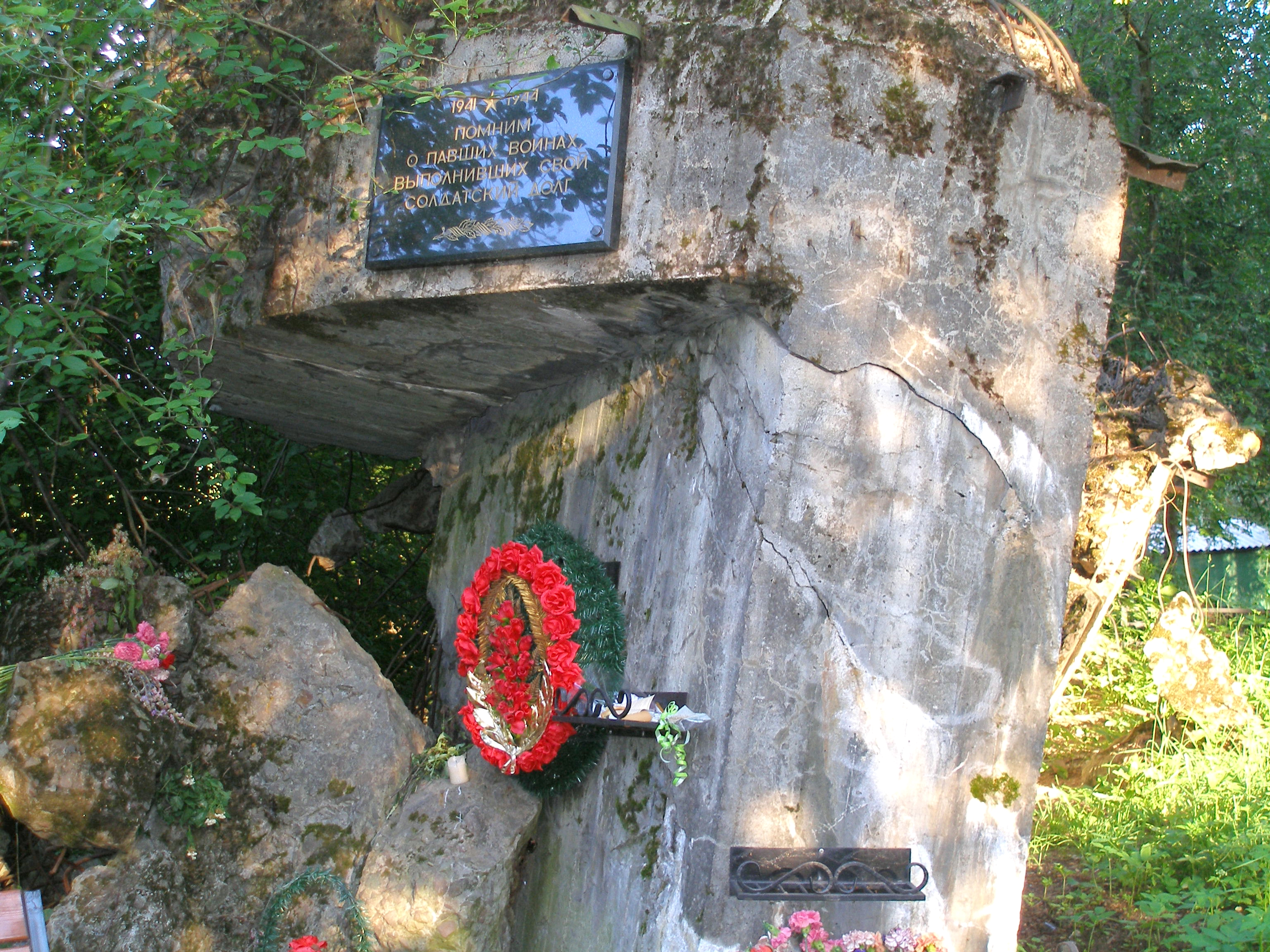 Memorial plaque on the ruins of the Beloostrov bunker